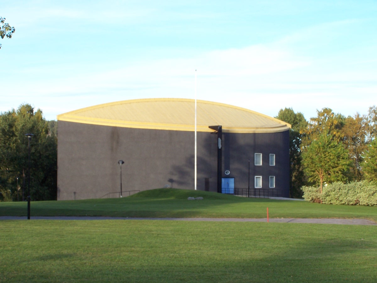 Nacksta church, Sundsvall, Sweden